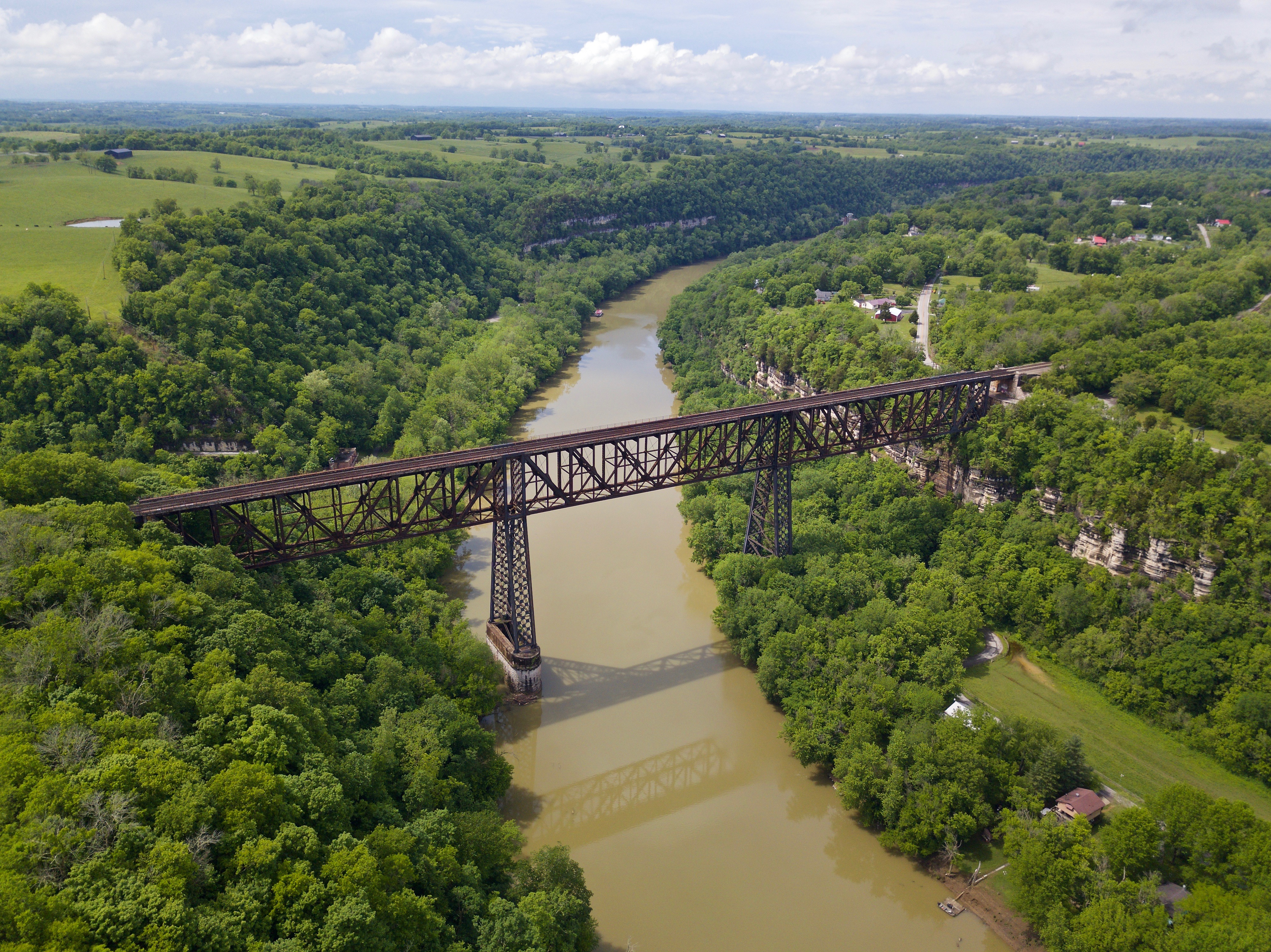 A drone's eye view of the "High Bridge of Kentucky" - a U.S. National Civil Engineering Landmark